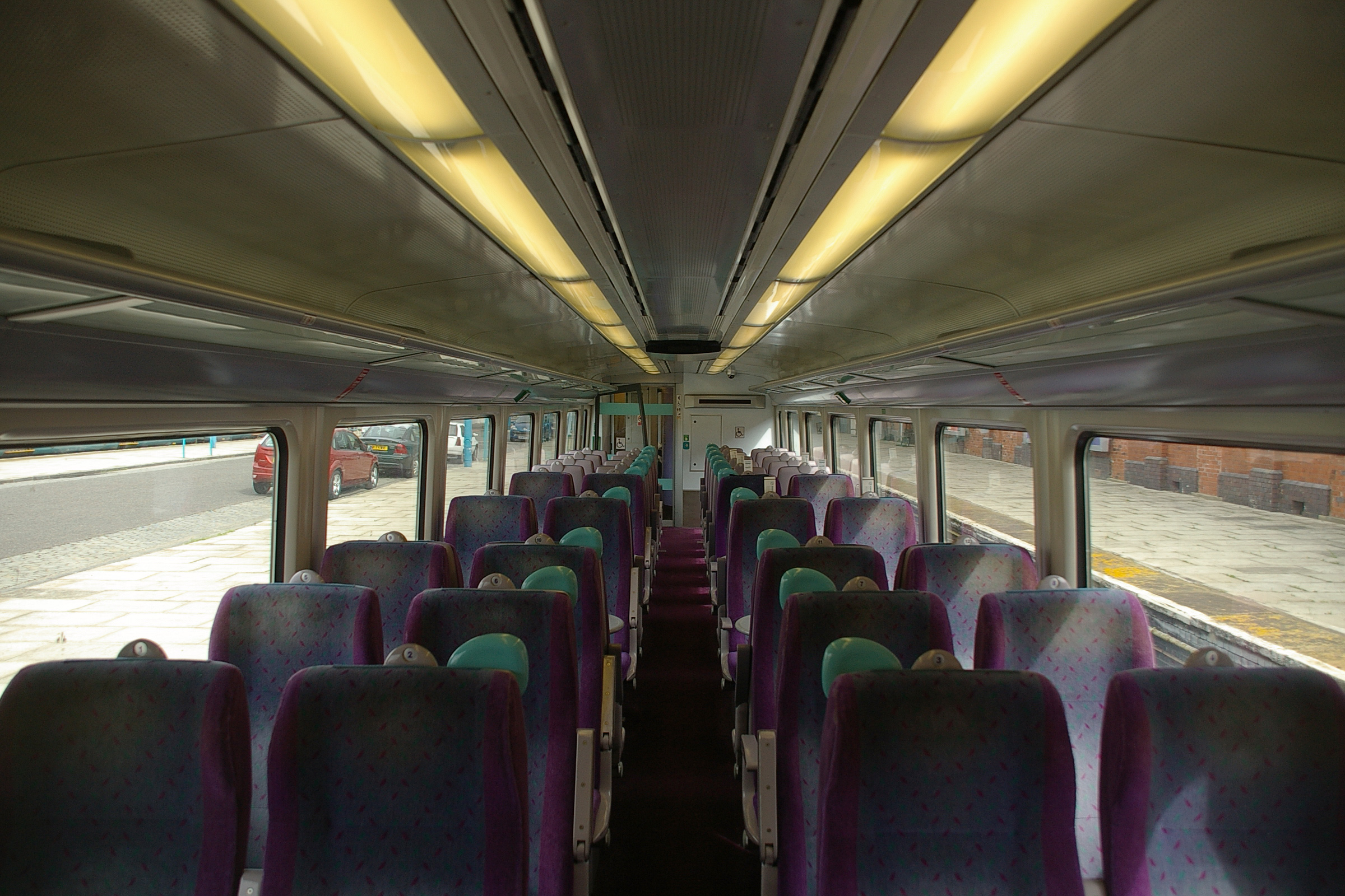 Interior of ATW 175112 at Llanduno railway station.